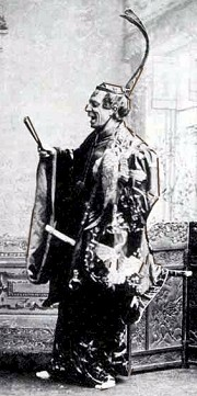 Photograph of Frederick Federici (1850–1888) in the title role in The Mikado at the Fifth Avenue Theatre in New York (1885)